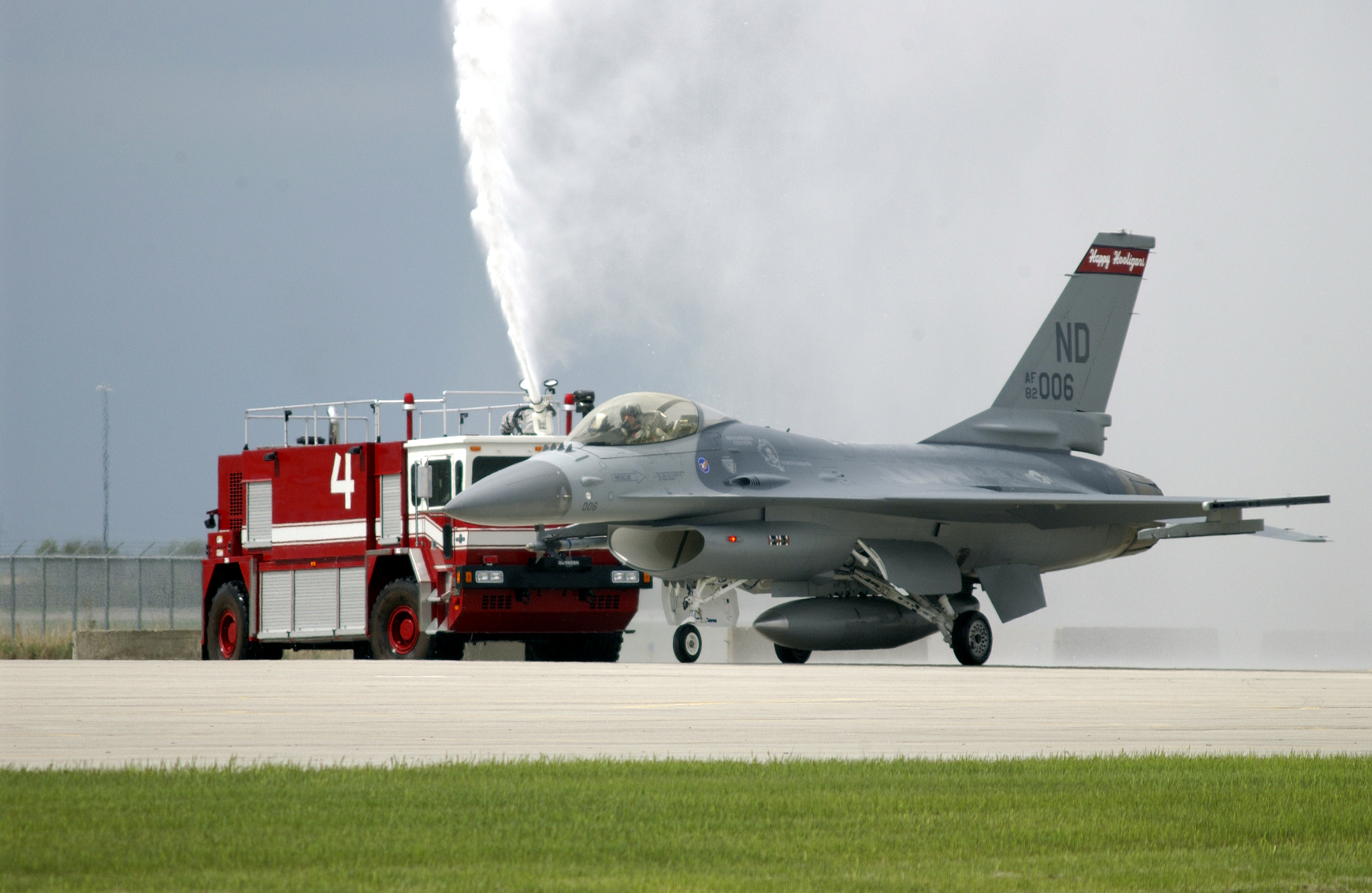 U.S. Air Force Lt. Col. Dana S. Mullenhour steers the General Dynamics F-16A Block 15N Fighting Falcon (s/n 82-1006) through a shower at Fargo, North Dakota (USA), on 14 May 2003 to celebrate the completion of 60,000 accident-free flying hours in the F-16 for the 119th Fighter Wing. Overall, the North Dakota Air National Guard had amassed more than 132,400 flying hours without a Class A mishap.